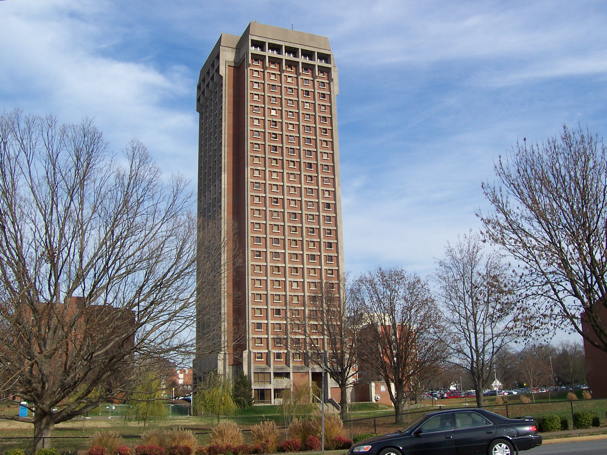 Pearce Ford Tower, a residents hall that is the tallest structure on the campus of Western Kentucky University. The structure is also the tallest building in the city of Bowling Green. PFT is currently undergoing a several year renovation bringing it into the 21st century.